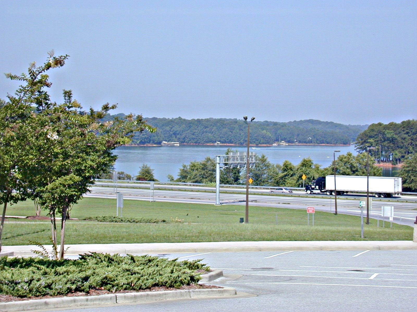 I-85 seen from South Carolina Welcome Center, just north of the Georgia border.